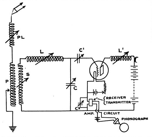 Circuit diagram of amateur wireless station of Charles E. Apgar